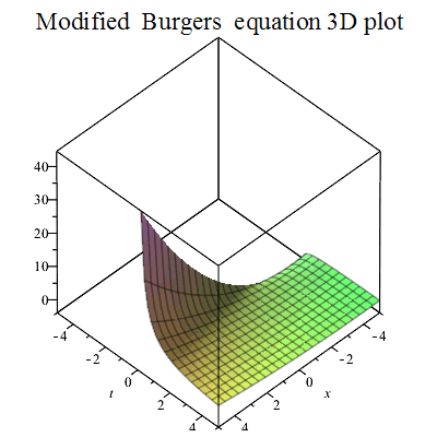 Modified Burgers equation 3D plot